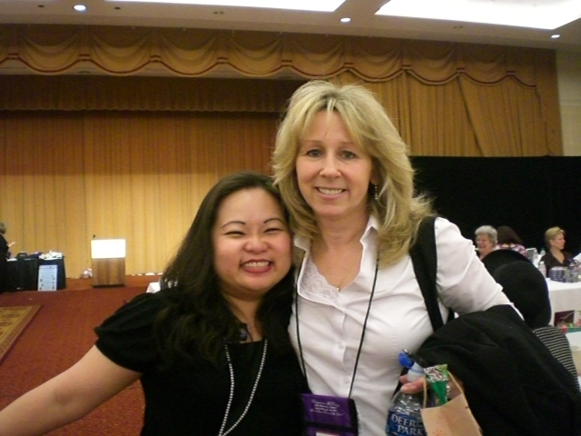 Lori Foster is on the right side: taken during the RWA convention in Pittsburgh 04/19/08